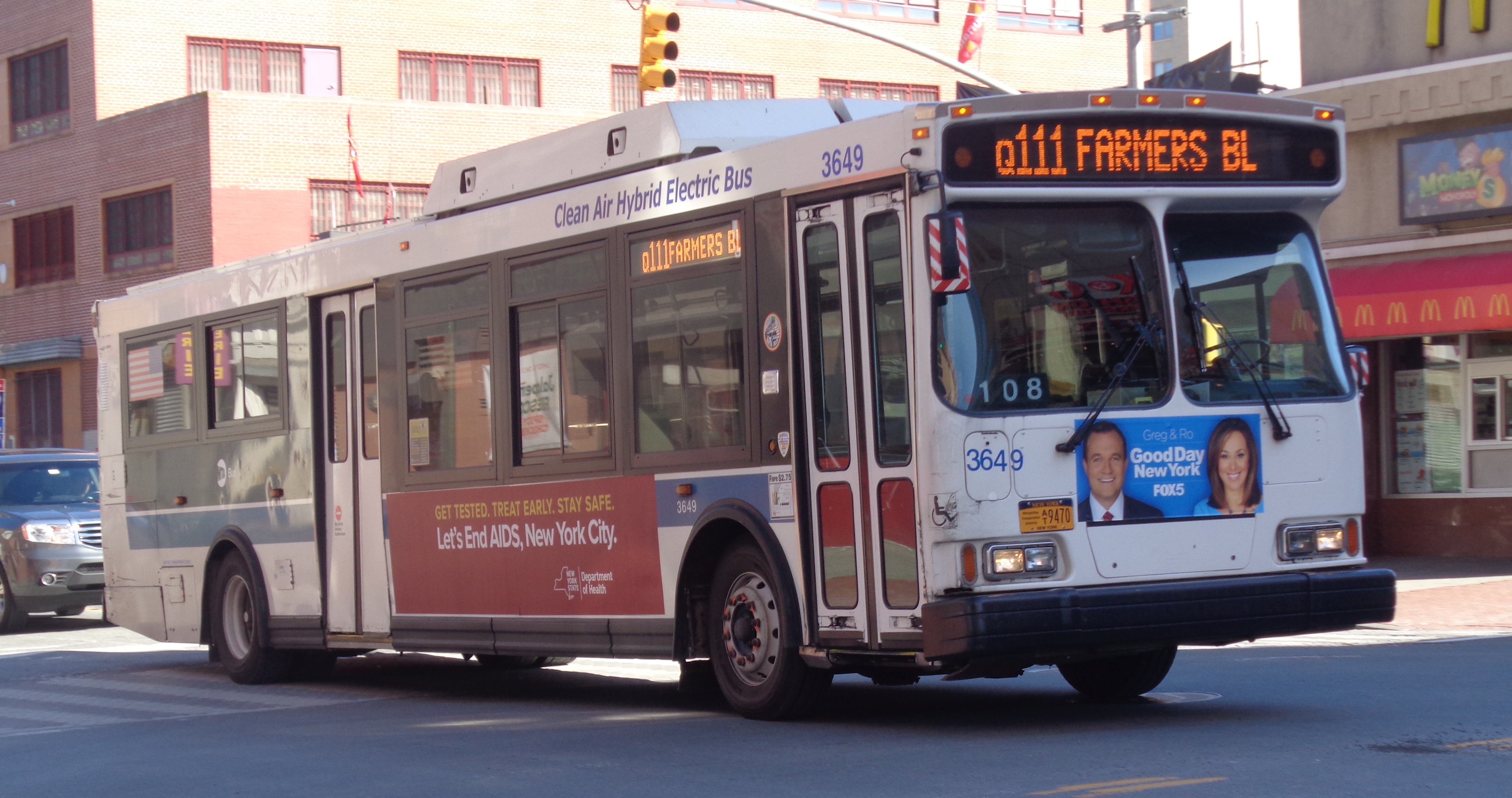 A Farmers Boulevard (Springfield Gardens)-bound Q111 bus at Parsons Boulevard and Jamaica Avenue in Jamaica Center, Queens.